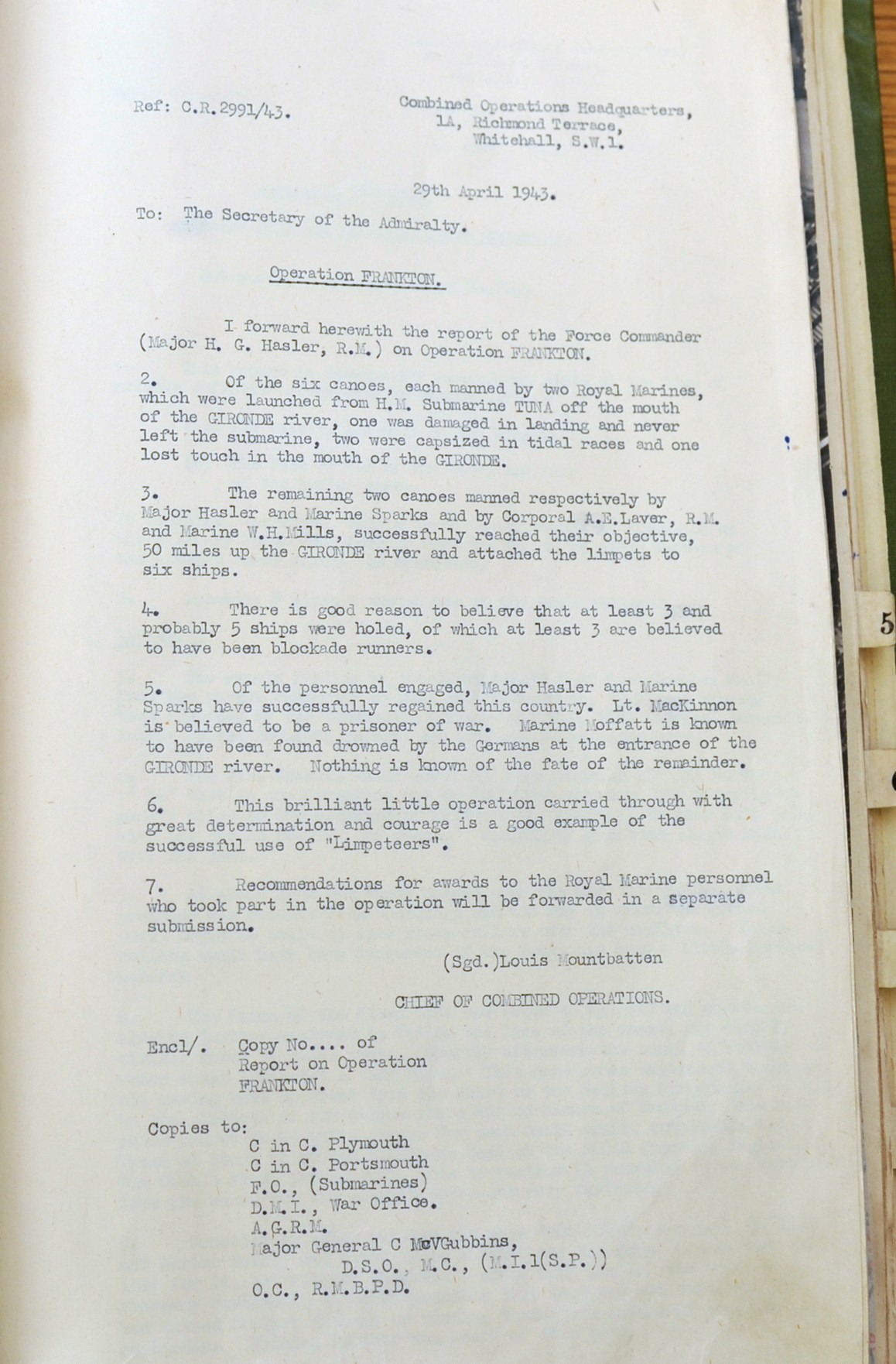 Op FRANKTON - Post-op report's covering letter